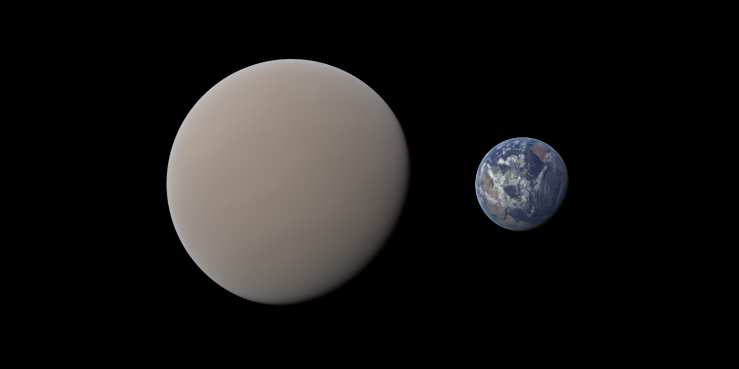 This image shows the estimated size of HD 40307g, a large super-earth exoplanet in the habitable zone of its star, compared to the size of Earth.